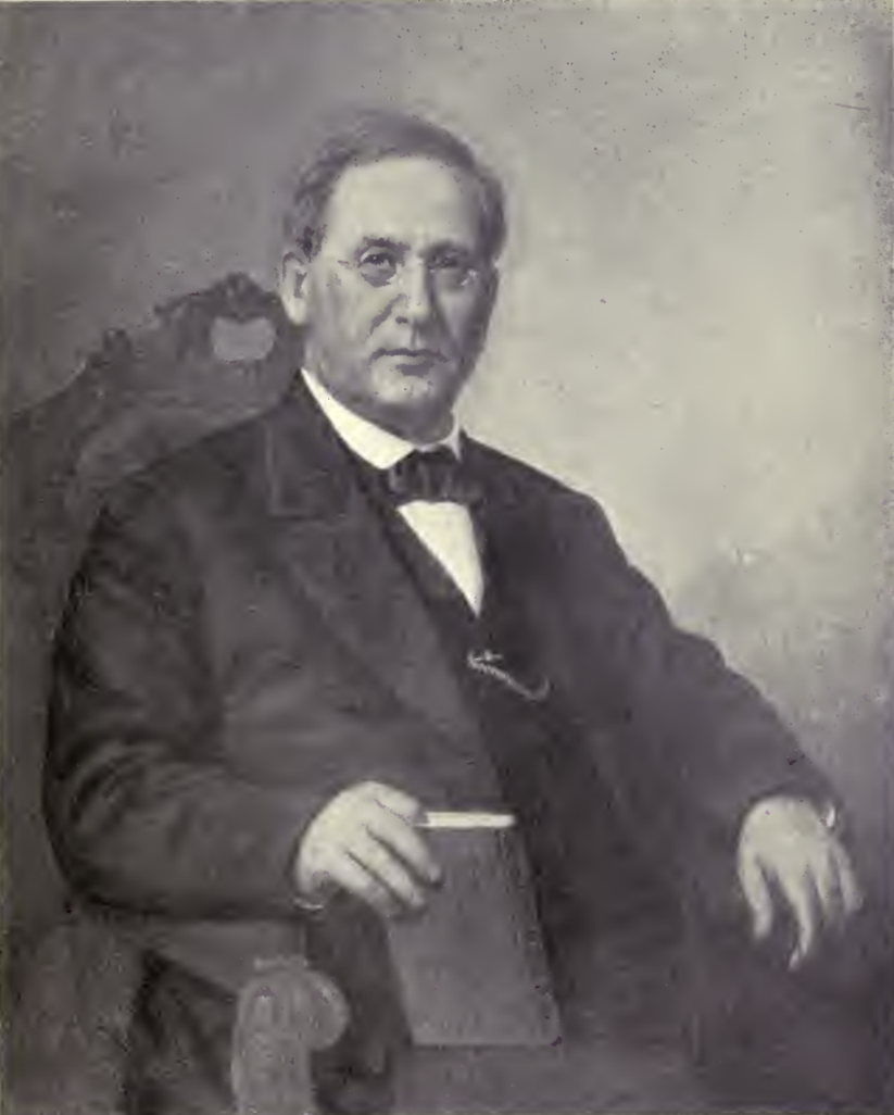 Samuel H. Taylor, 6th Principal of Phillips Academy, Andover, MA.